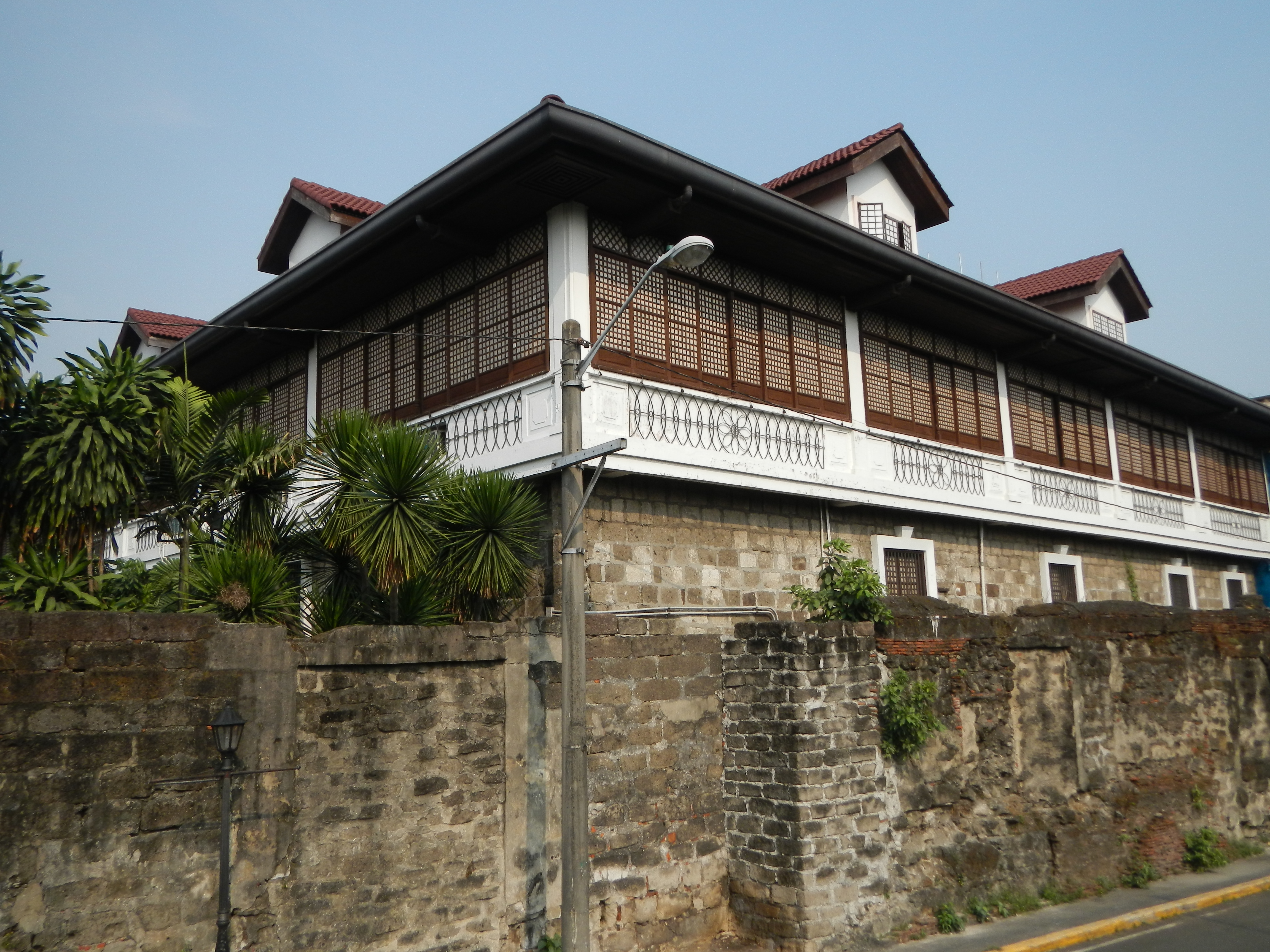 Commission on Elections (Philippines) Palacio Arzobizpal, Intramuros, beside the Puerta Postigo del Palacio or Pintong Postigo, 1662.